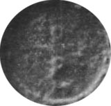 Seal of Andrija of Hum, dated to the mid-13th century.